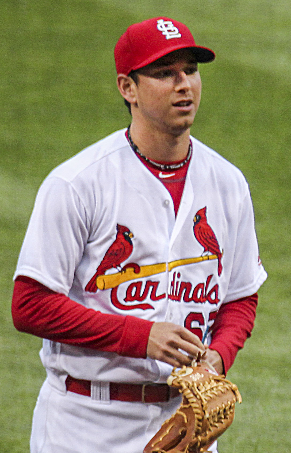 Mathew Bowman of the St.Louis Cardinals.